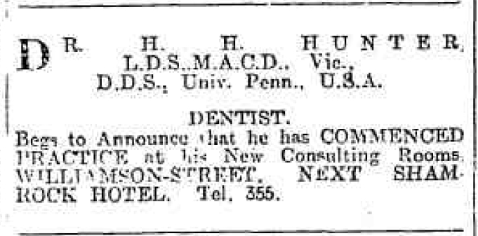 Advertisement of the opening of the dental surgery practice of Herbert Humphreys Hunter (18 November 1881 – 8 May 1915), L.D.S. (Licentiate of Dental Surgery), D.D.S. (Doctor of Dental Surgery, M.A.C.D. (Member of the Australian College of Dentistry), dental surgeon, in Bendigo, Victoria, in 1908. Note that several earlier advertisements displayed "D.D.S. Univ. Perm".